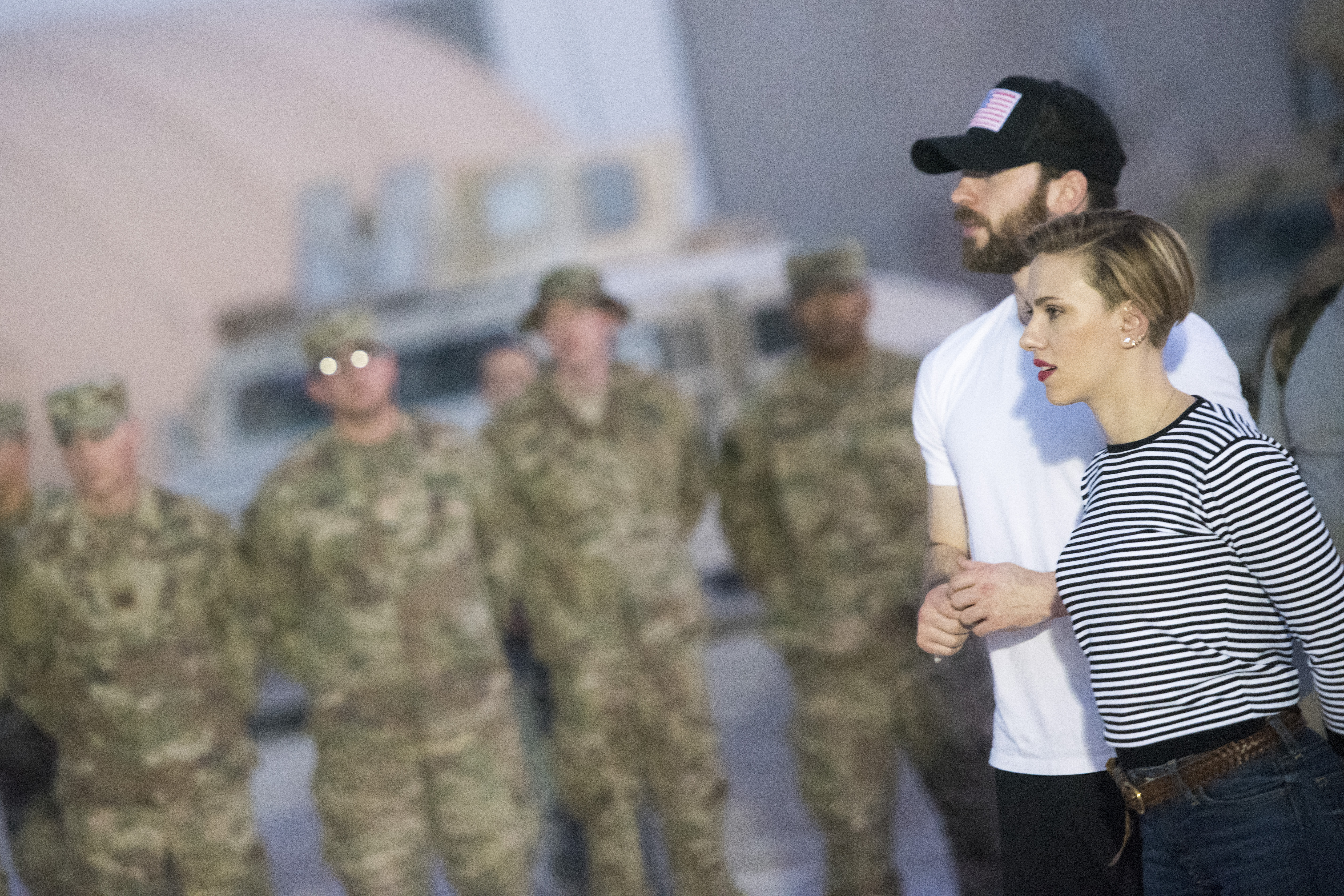 Scarlett Johansson and Chris Evans observe a demonstration from service members during a troop engagement at Al-Udeid Air Base, Qatar, Dec. 6, 2016. Marine Gen. Joseph F. Dunford, Jr., chairman of the Joint Chiefs of Staff, along with USO entertainers, visited service members who are deployed from home during the holidays at various locations across the globe. This year’s entertainers included actors Chris Evans, actress Scarlett Johansson, NBA Legend Ray Allen, 4-time Olympic Medalist Maya DiRado, Country Music Singer Craig Campbell, and mentalist Jim Karol. (DoD photo by Navy Petty Officer 2nd Class Dominique A. Pineiro/Released)